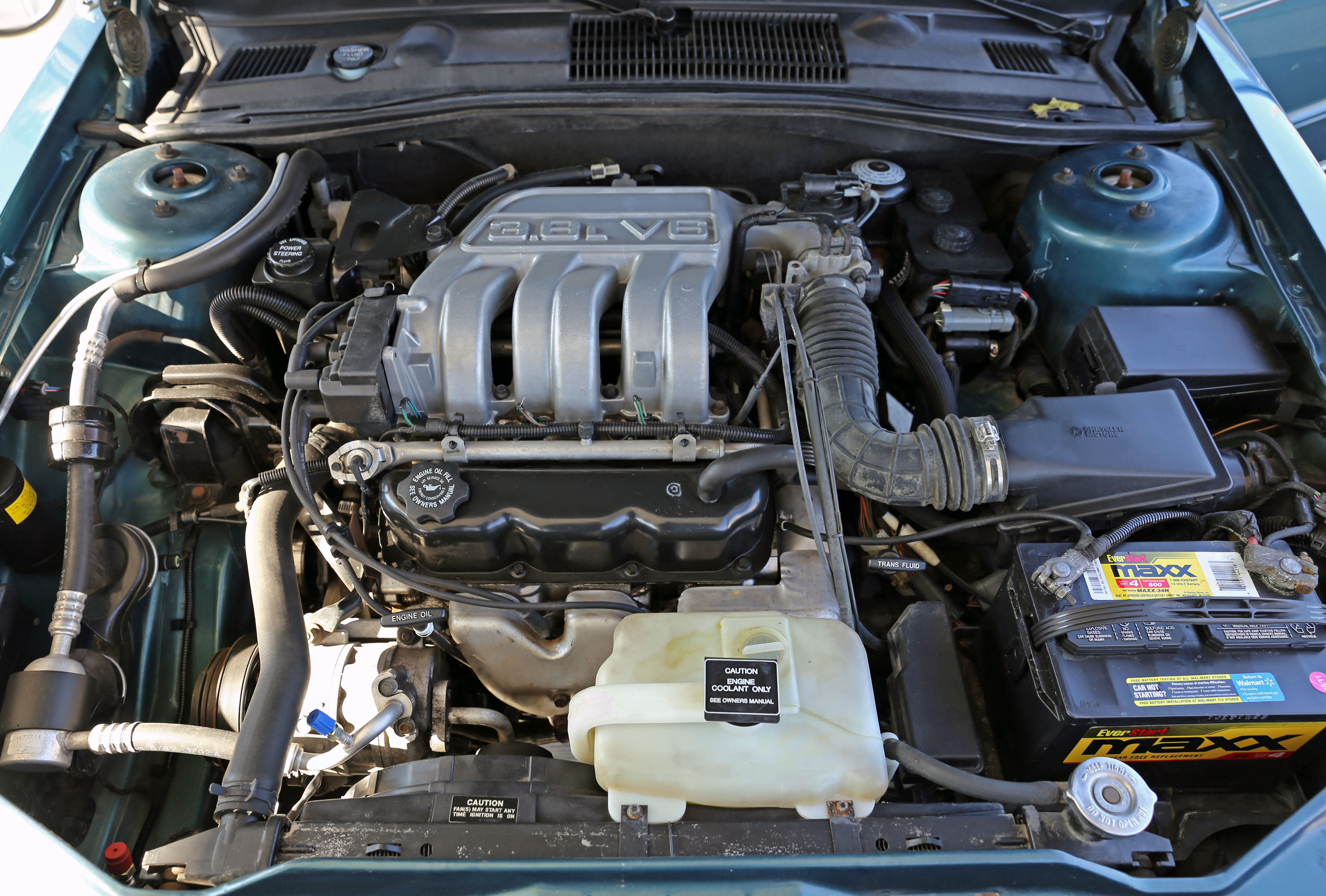 The 3.8 litre OHV EGH V6 engine in a 1993 Chrysler Imperial (teal), recently purchased from its ninety-something original owner.